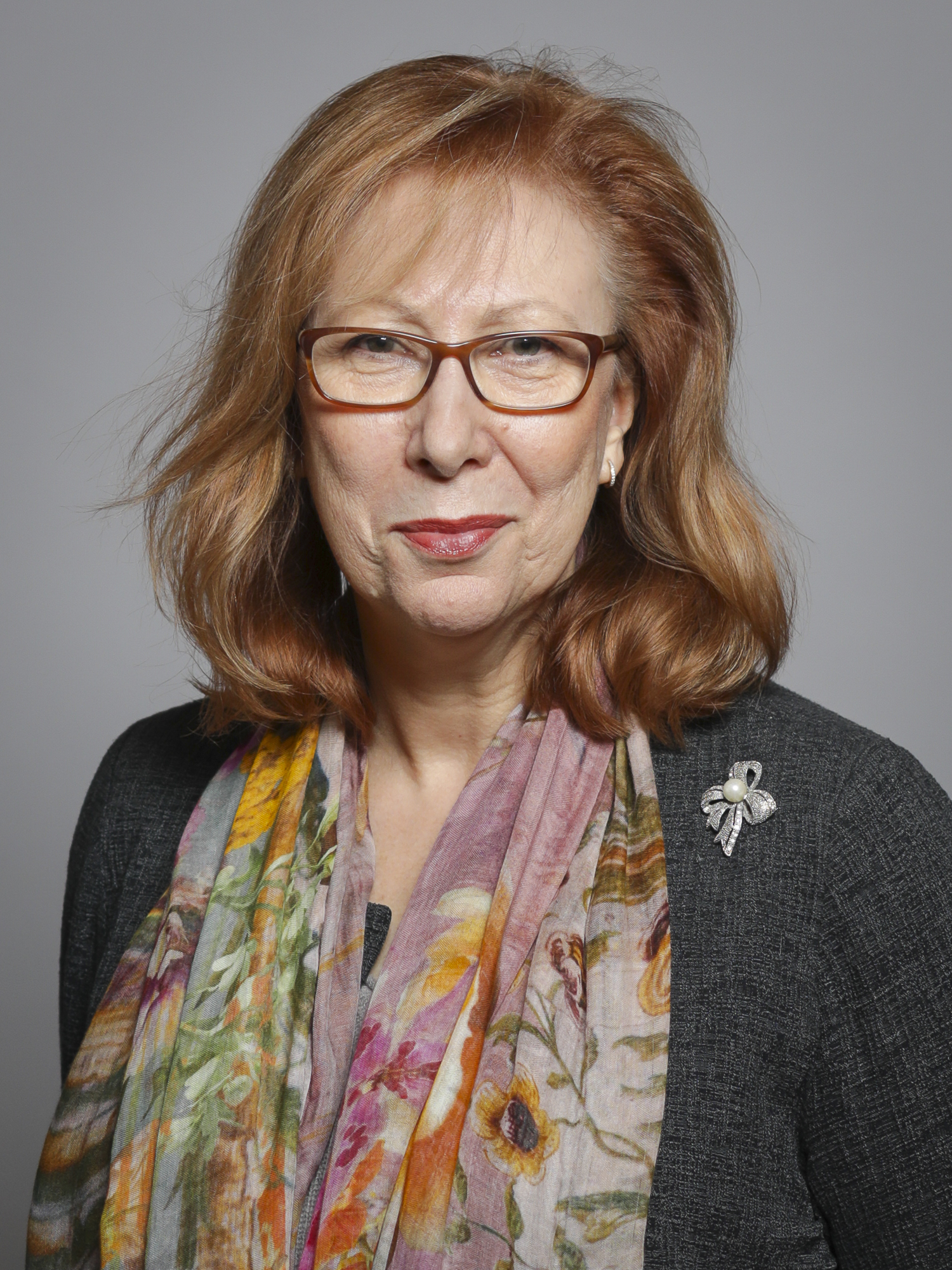 Official portrait of Baroness Morris of Bolton 3×4 portrait of Baroness Morris of Bolton